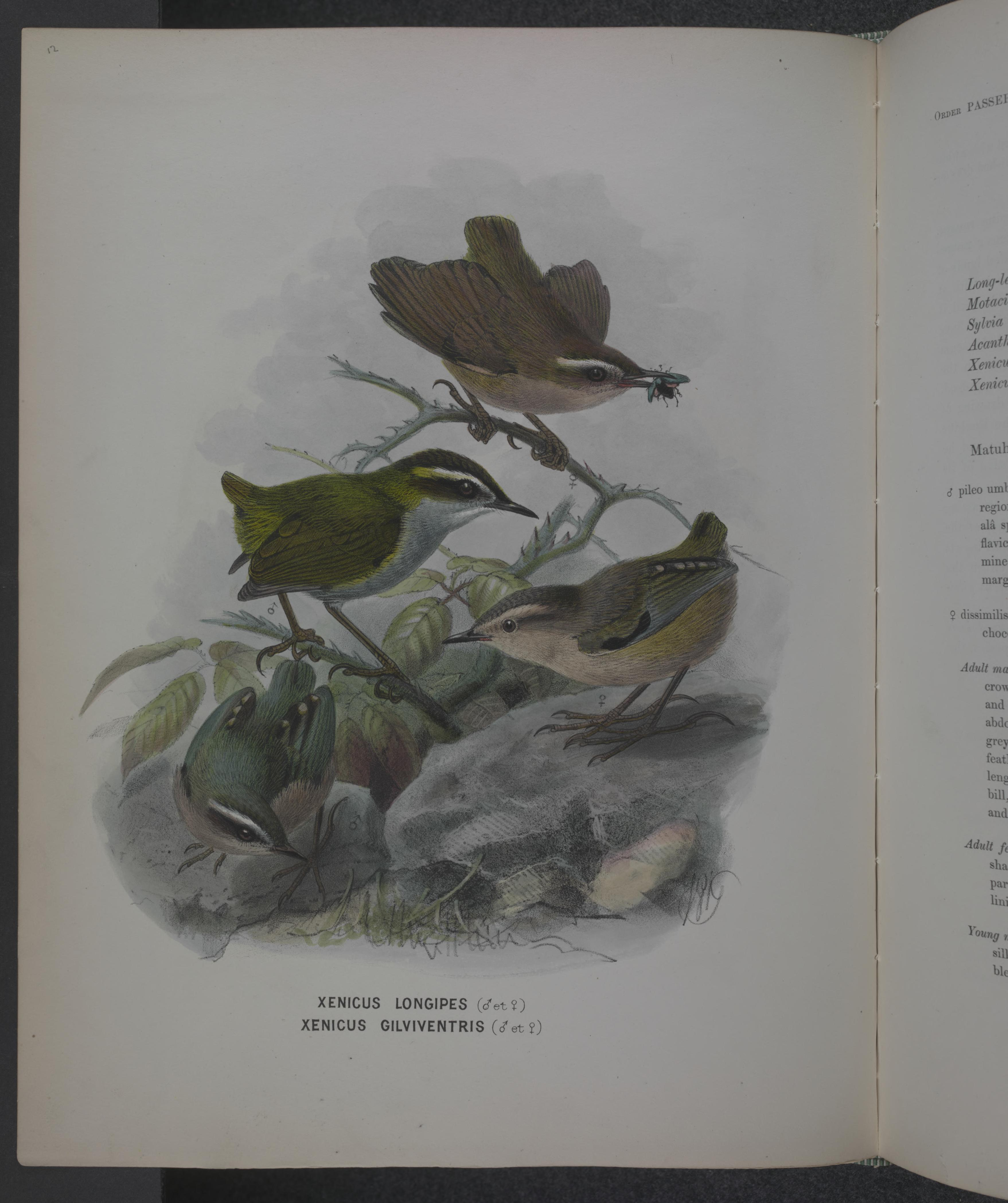 A history of the birds of New Zealand /